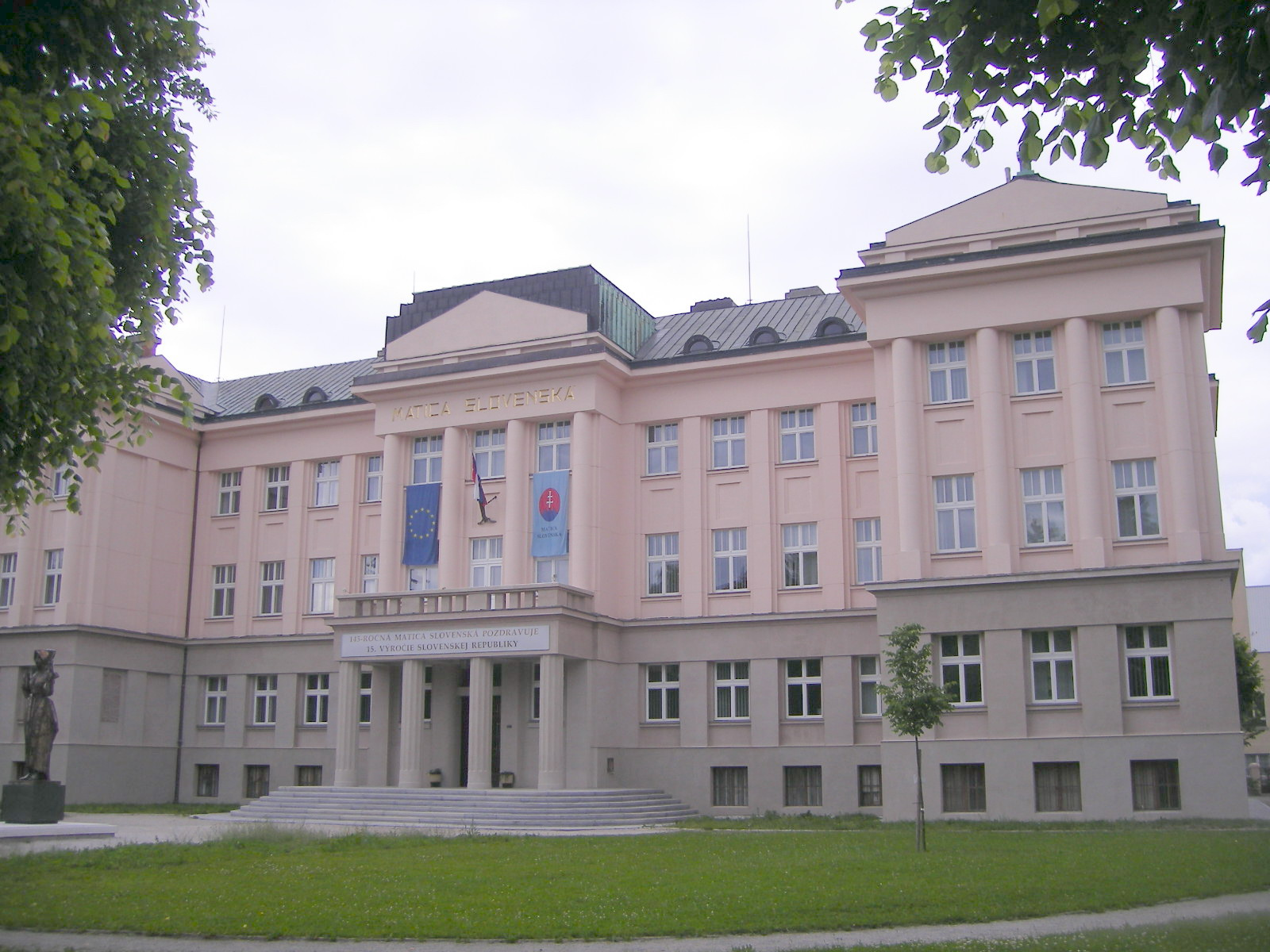 Martin - Matica slovenská headquarters